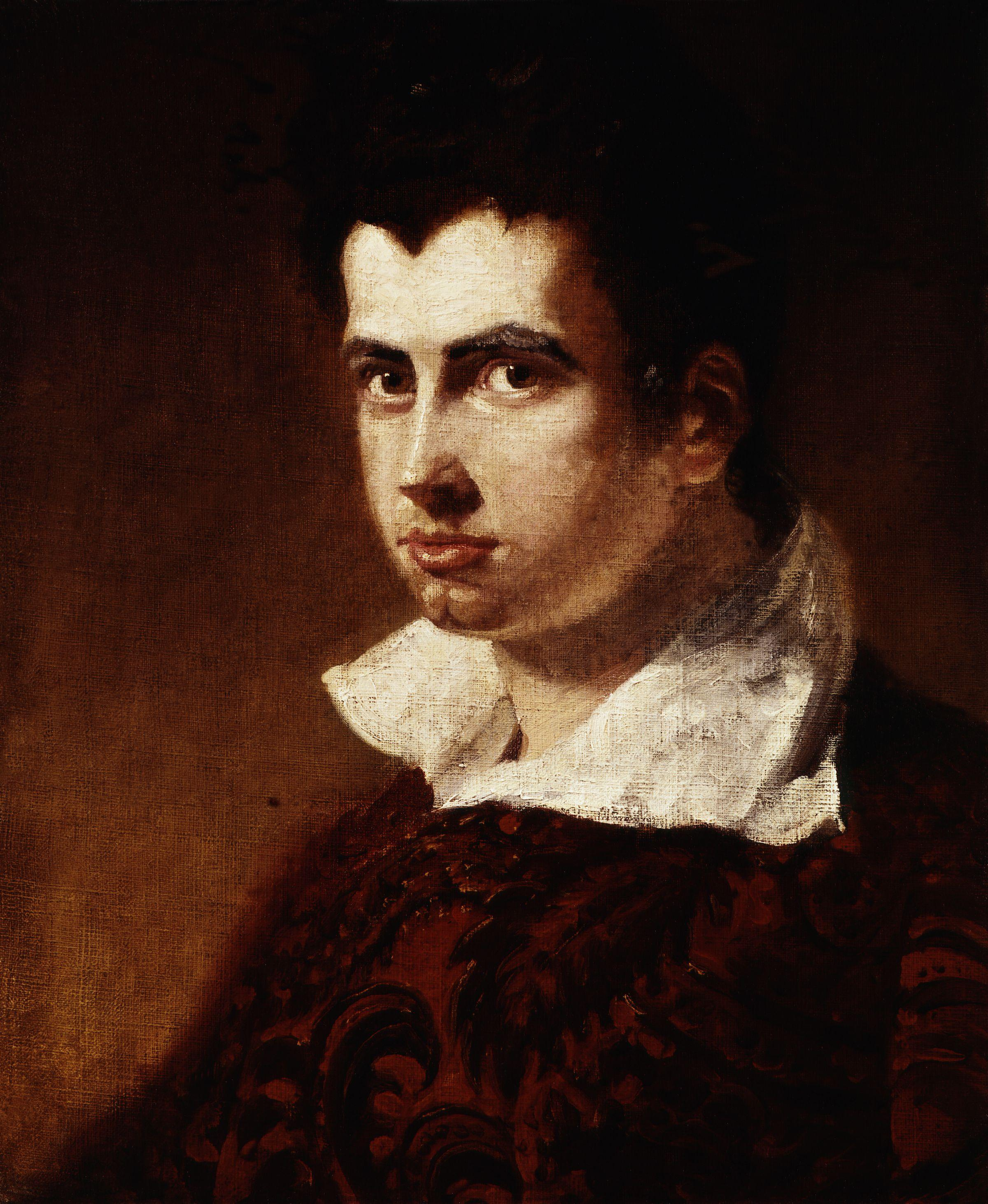 James Henry Leigh Hunt, by Benjamin Robert Haydon (died 1846). All images in this batch have been confirmed as author died before 1939 according to the official death date listed by the NPG.